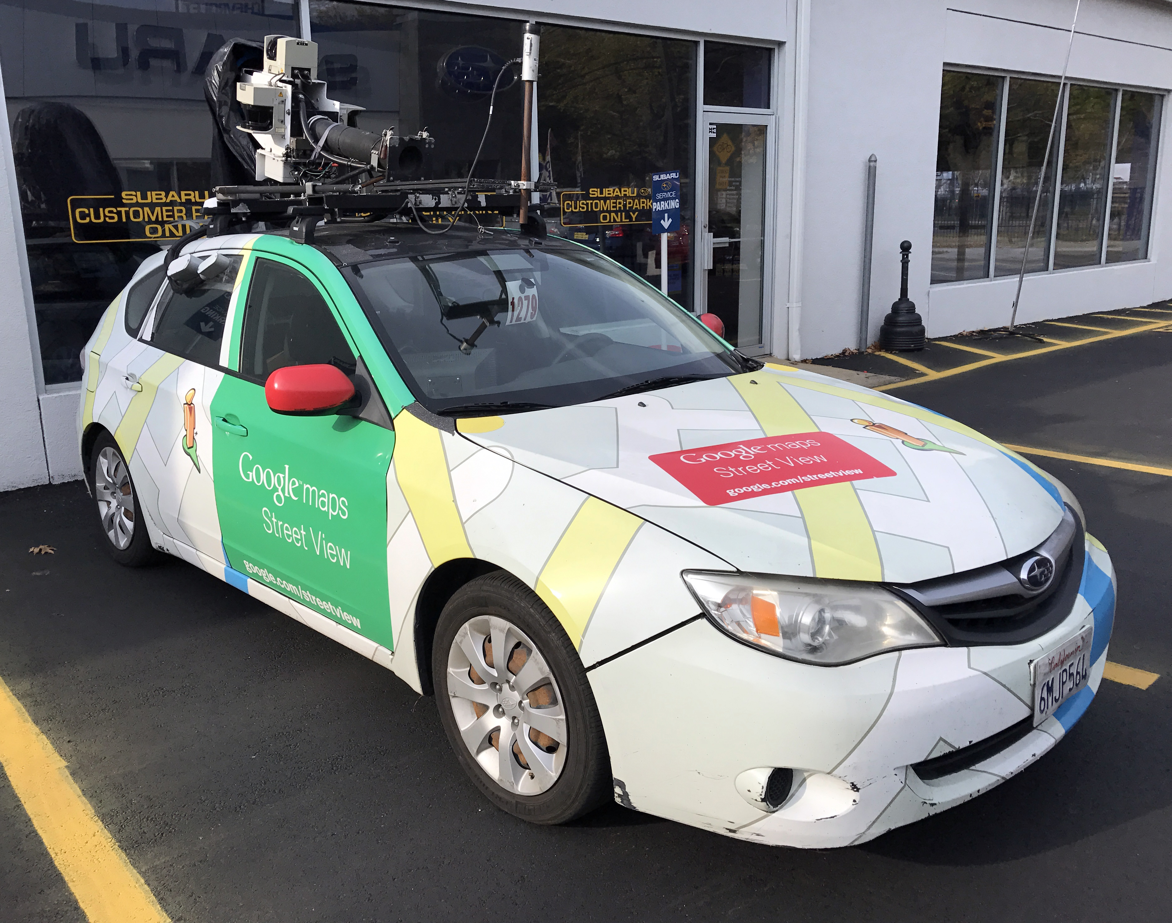 A Google Street View car parked at a Subaru Service Center in Jersey City, New Jersey, as seen on November 2, 2016. This photo was created by Luigi Novi. It is not in the public domain, and use of this file outside of the licensing terms is a copyright violation.